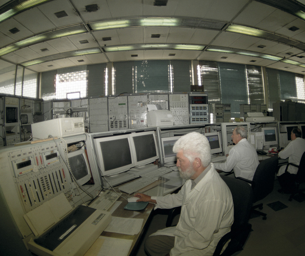 “U-70 atom smasher control panel”. The U-70 atom smasher control panel in the Institute for High Energy Physics in the city of Protvino.